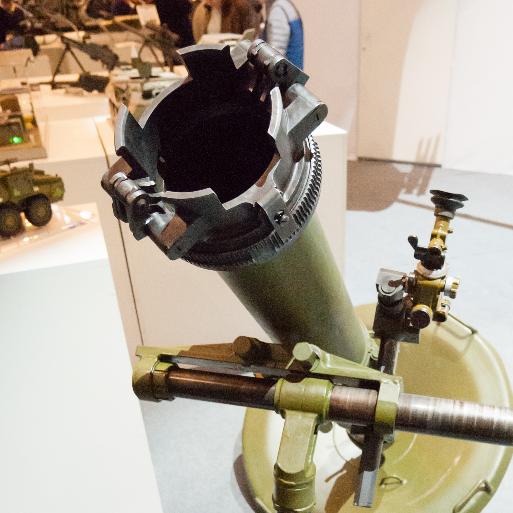 M120-15 Molot mortar (Ukraine)